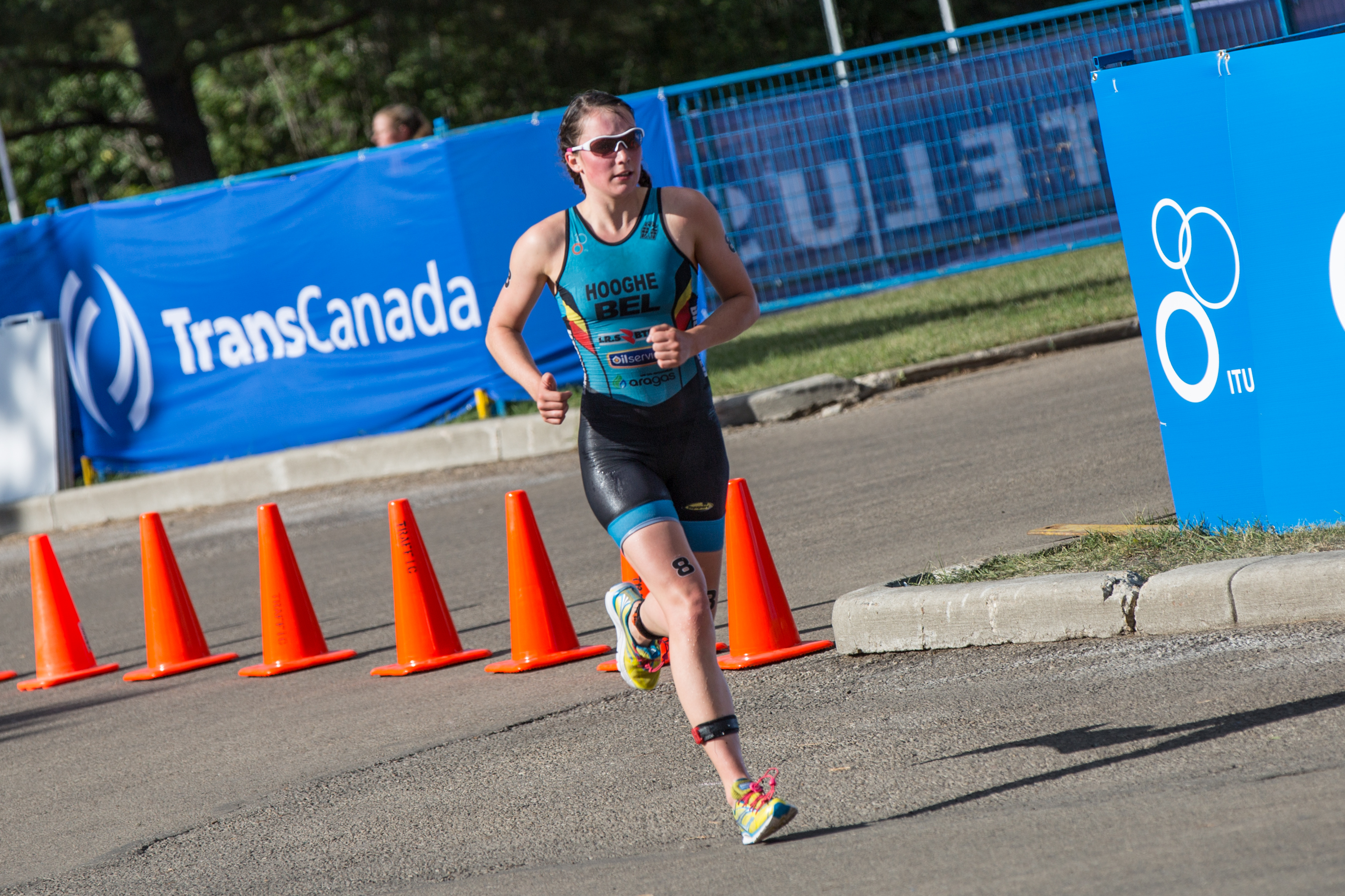 Sofie Hooghe at 2014 ITU World Triathlon Grand Final Edmonton